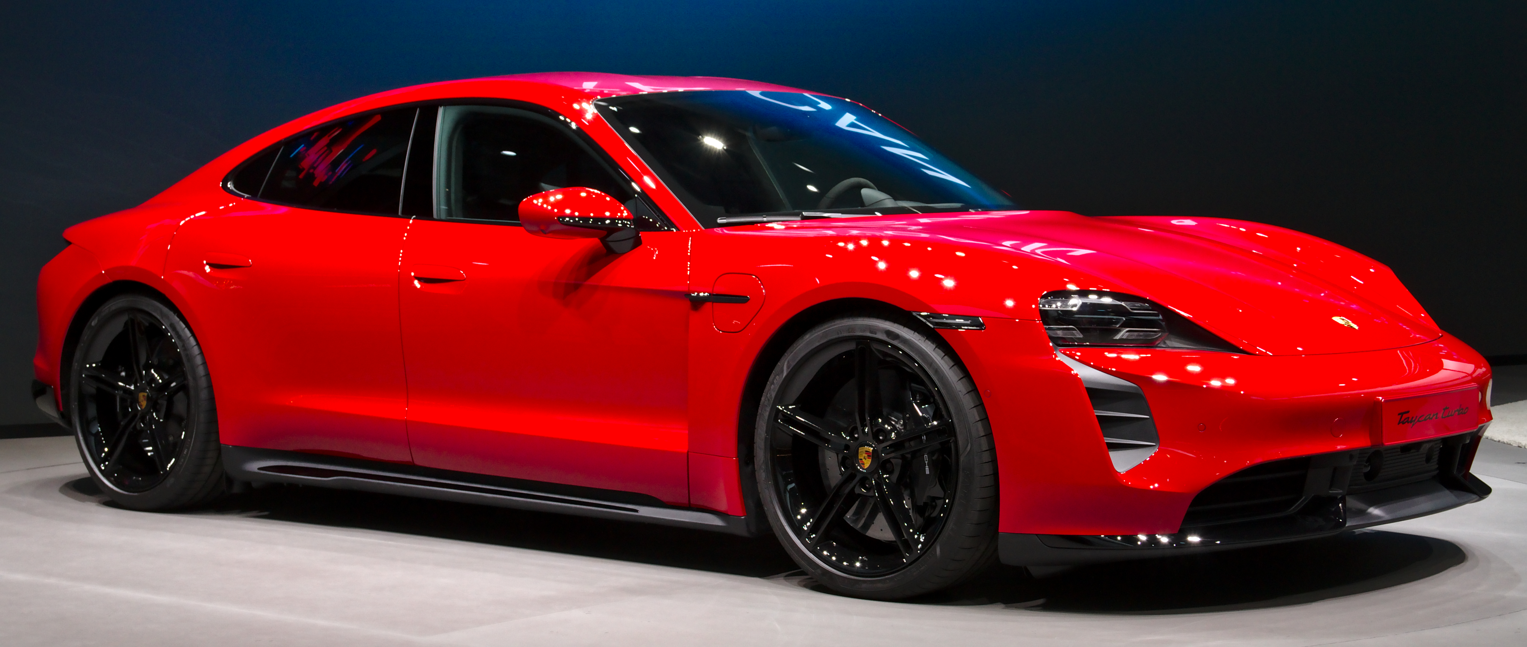 Porsche_Taycan at IAA 2019